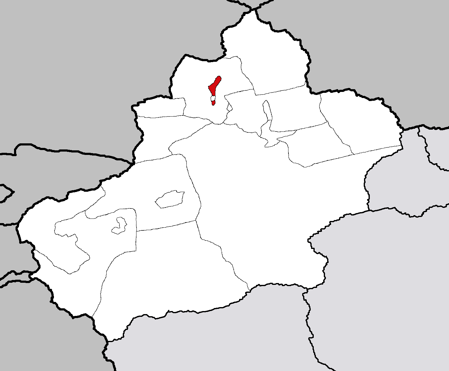 Maps of Xinjiang Uygur Autonomous Region of China